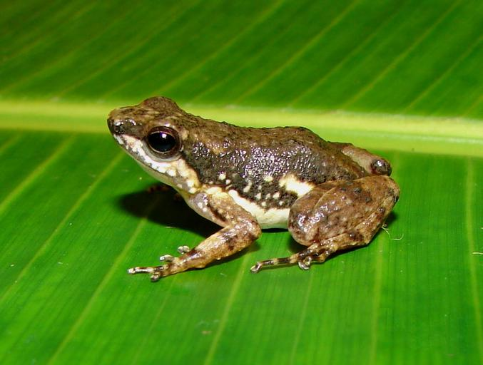 Colostethus inguinalis